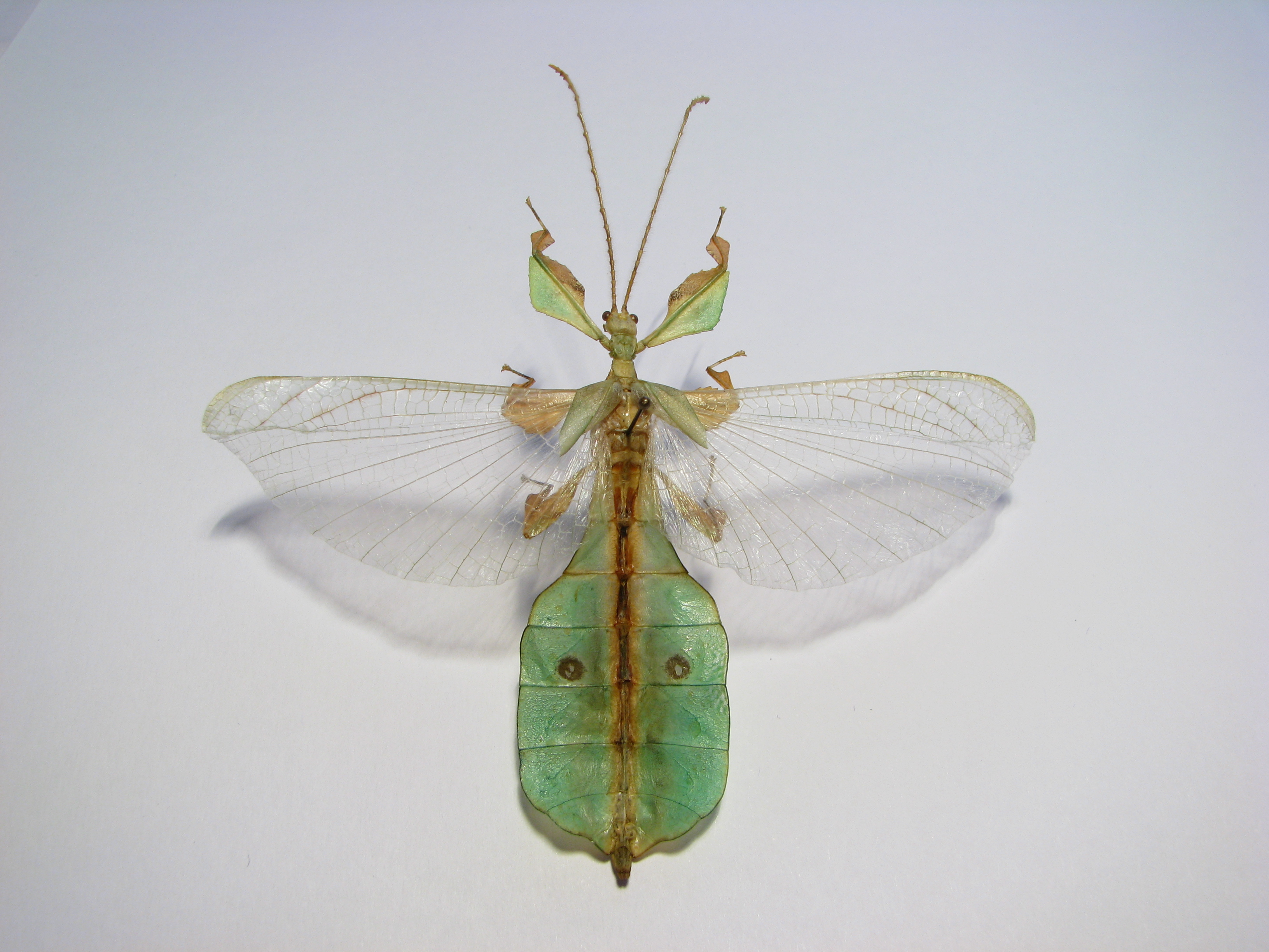 Phyllium bioculatum preserved Male